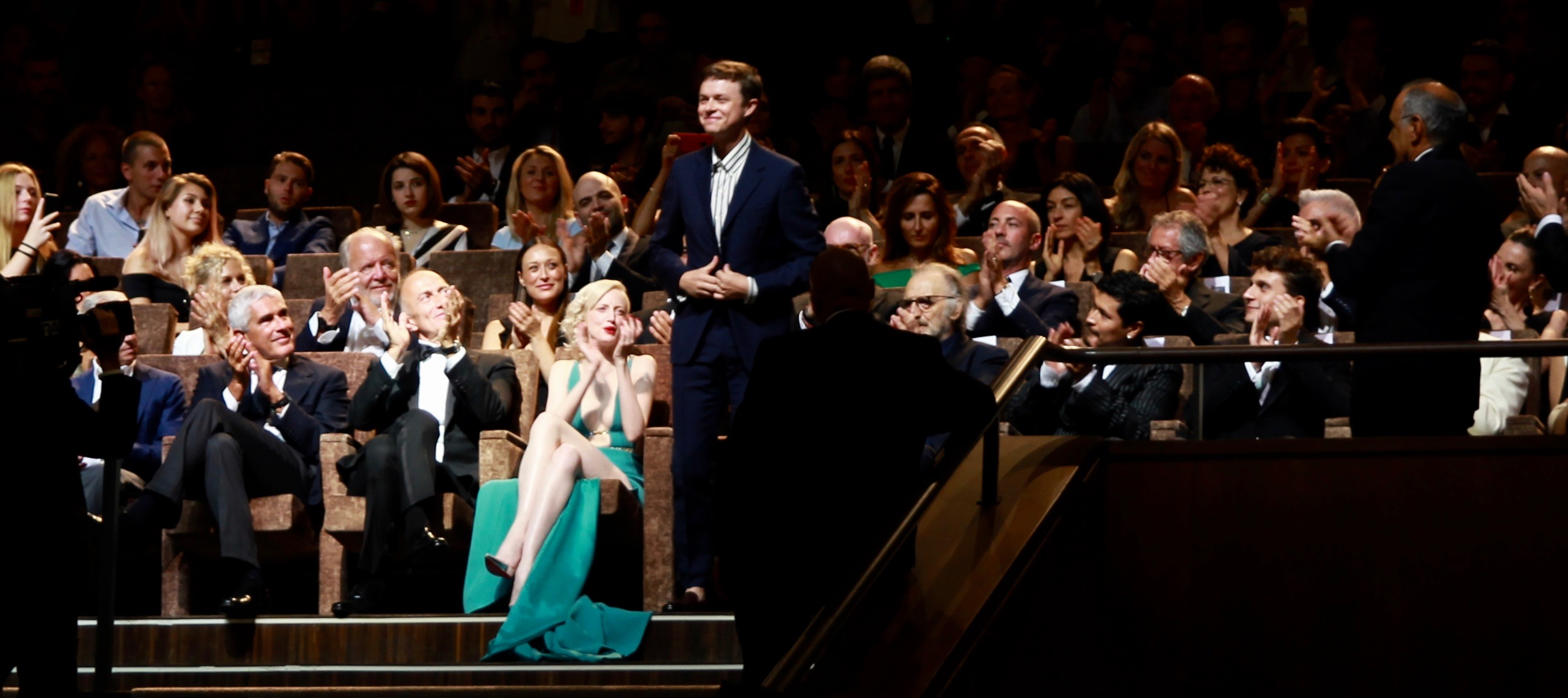 The cast and the director of Sky's show "ZeroZeroZero" at the prémiere in Venice in 2019